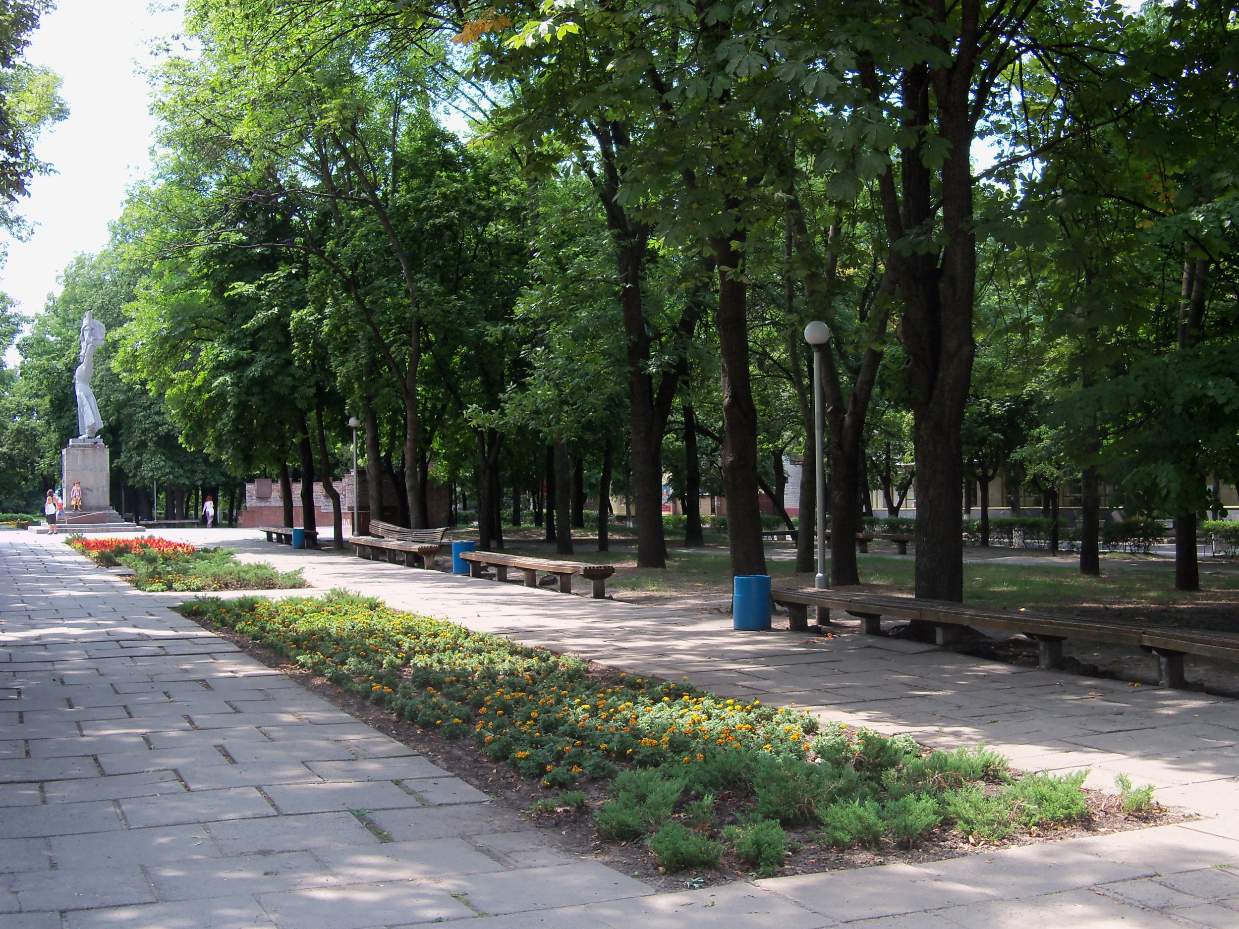 Zhovtnevyy Square in Kremenchuk